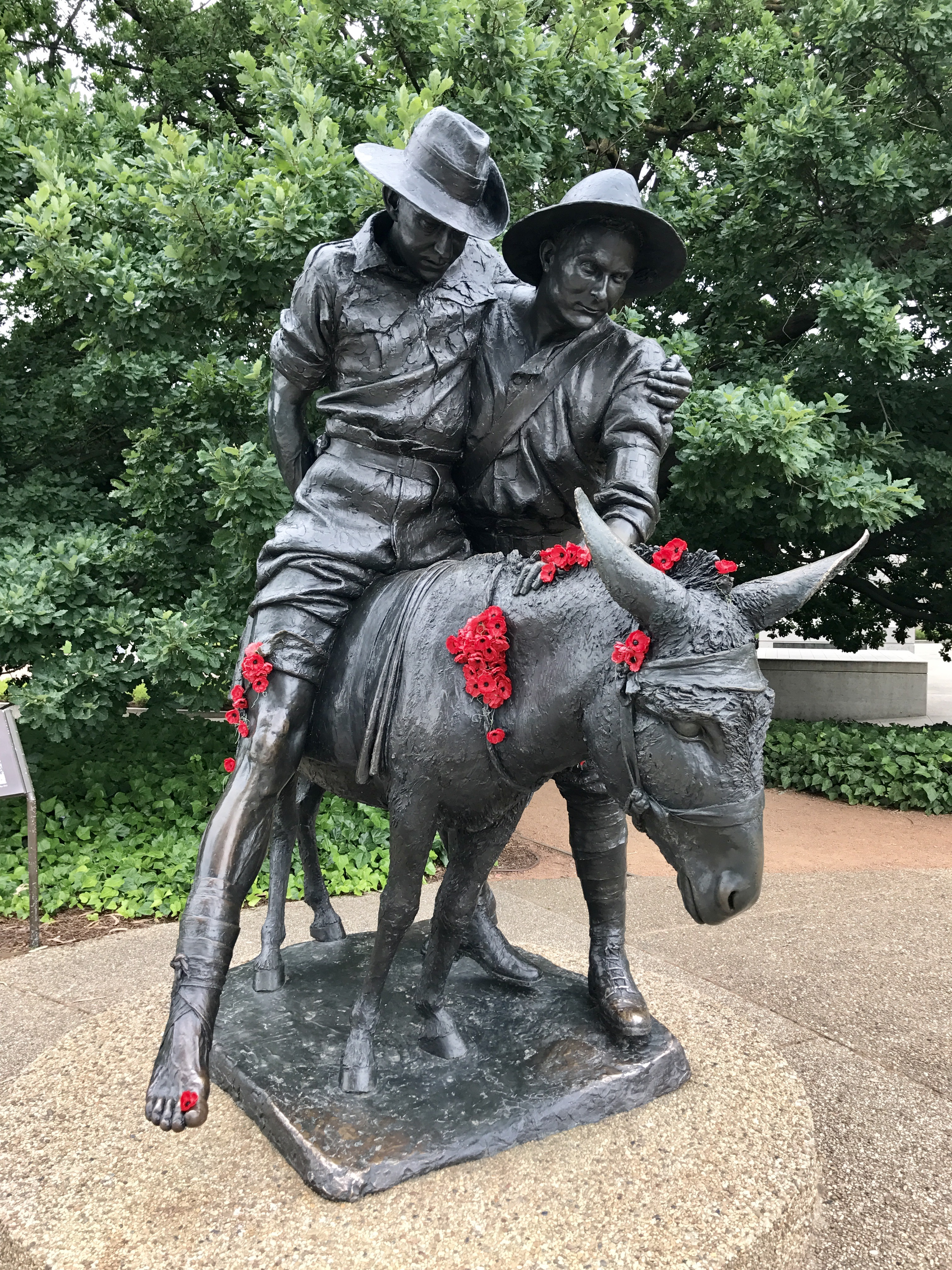 Simpson and his Donkey statue in Canberra, ACT, Australia